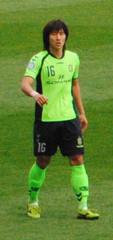 The football game of Jeju United FC Vs Jeonbuk Hyundai Motors Football Club at 28th Nov. 2010 at Jeju Wolrdcup stadium